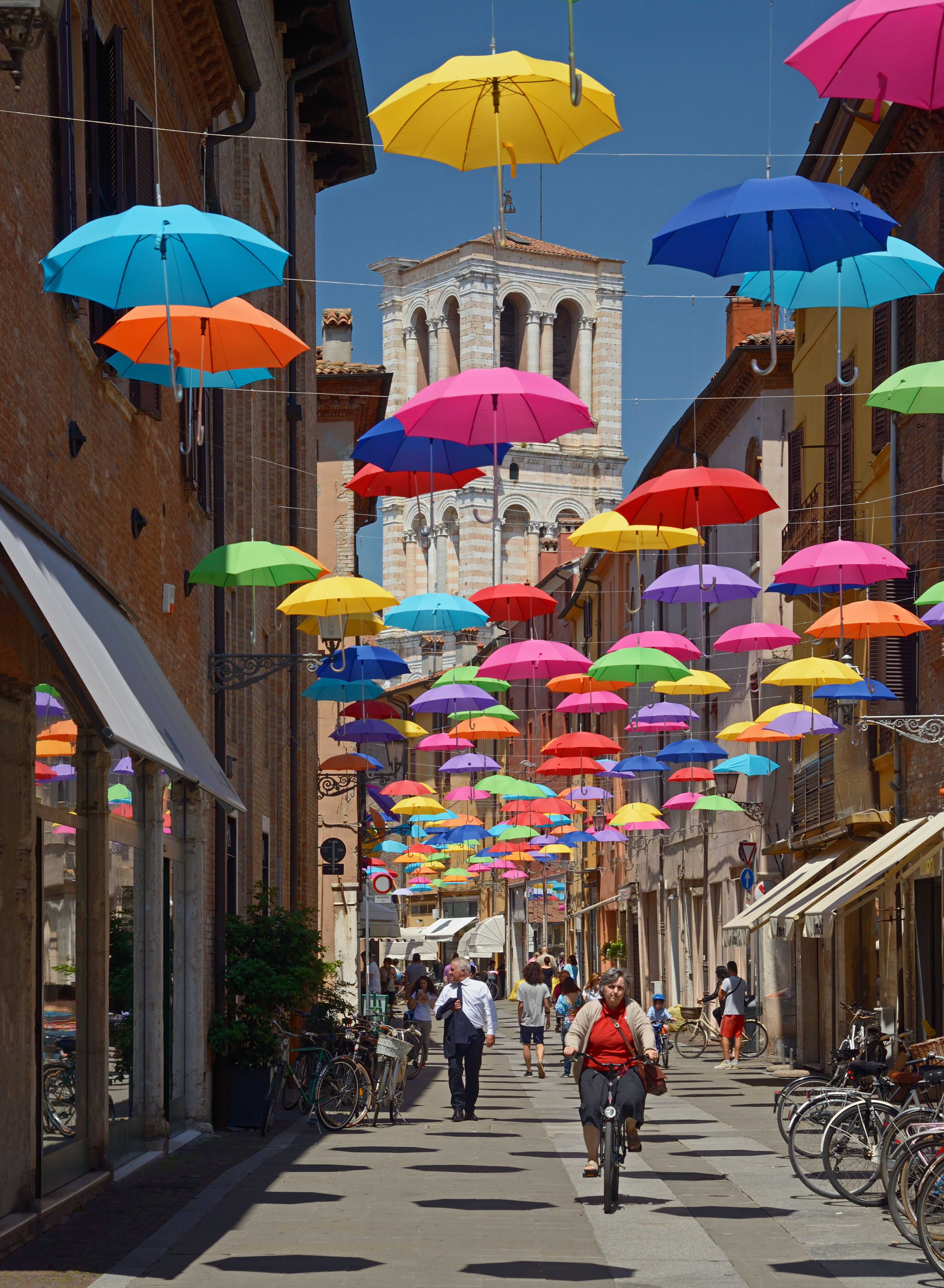 Via Giuseppe Mazzini. Ferrara, Italy